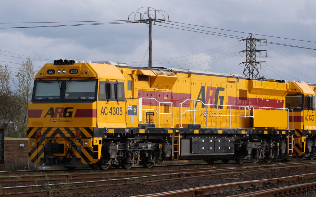 ARG AC4305 (UGL Rail C43aci) at North Dynon, Melbourne